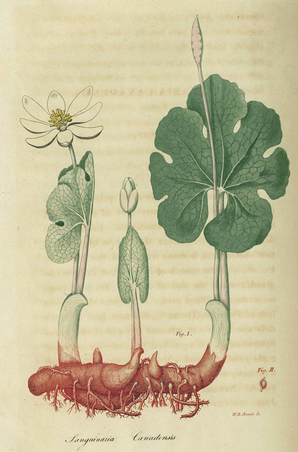 Plate VII To view the entire book, please visit American Medical Botany.